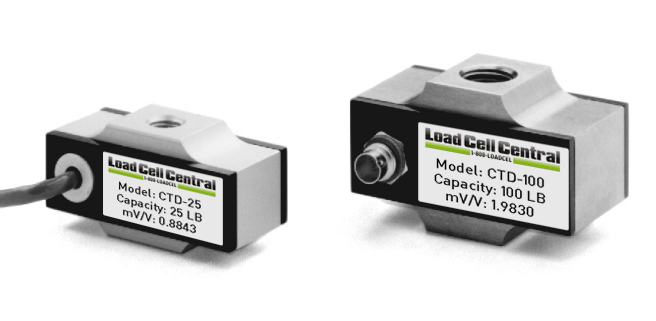 CTD miniature load cell